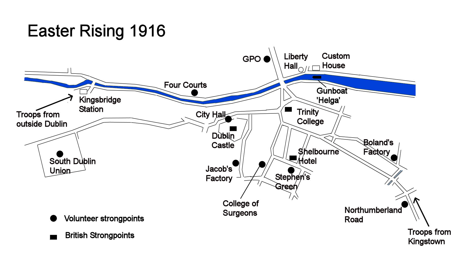 Placements of Rebel forces and British troops around Dublin during the Easter Rising, 1916